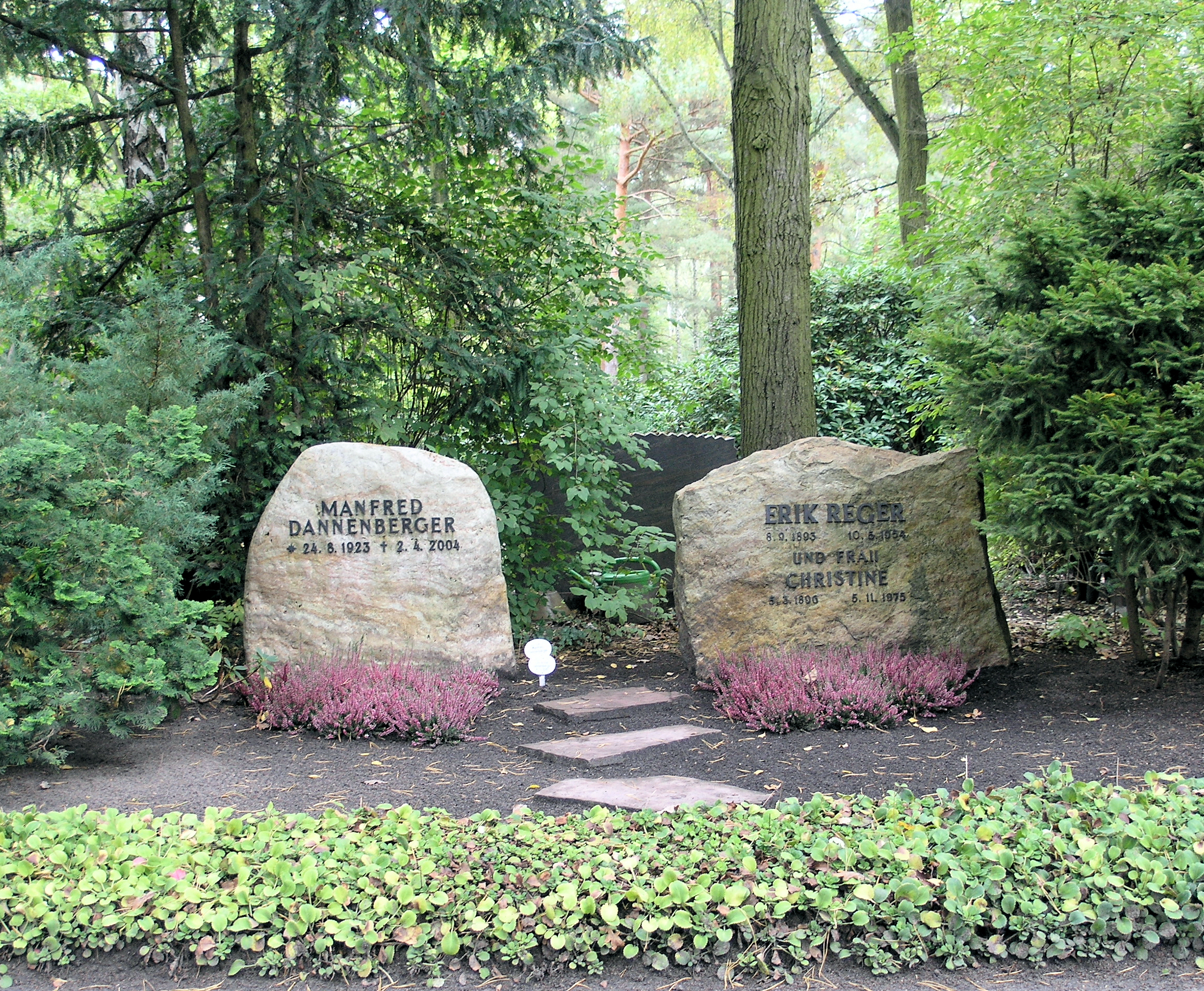 "Ehrengrab" (grave of honor), Erik Reger, Potsdamer Chaussee 75, Berlin-Nikolassee, Germany Koordinate:52°25′23″N 13°12′38″E / 52.42306°N 13.21056°E